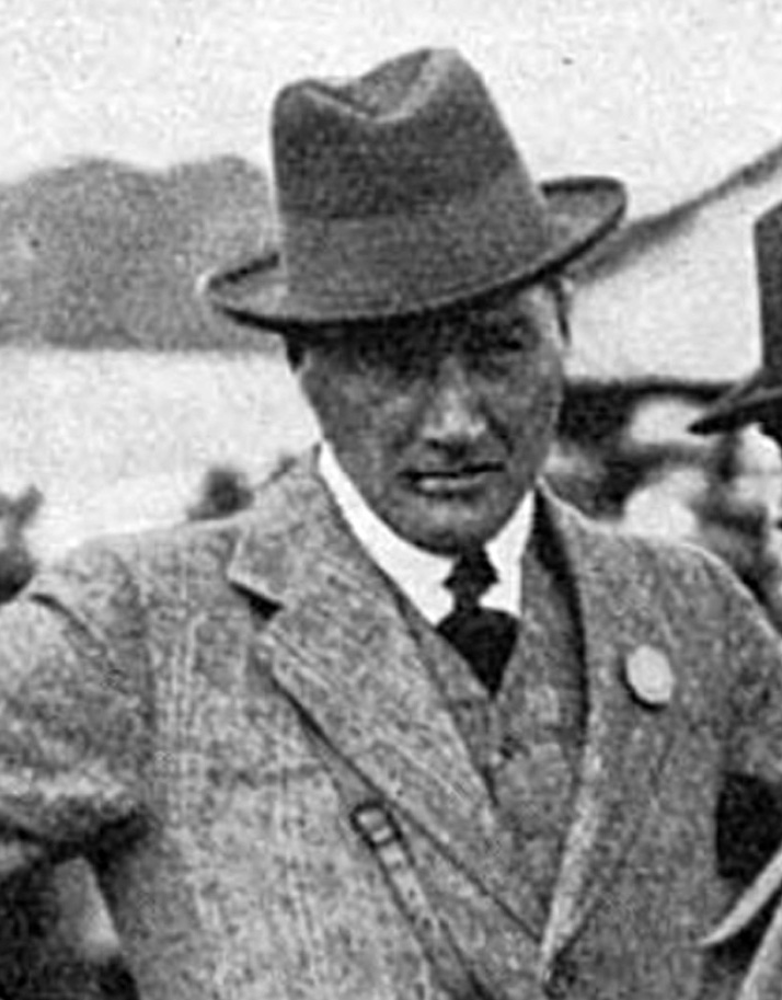 Hubert Fawcett Brunskill, owner of Glazebrook House, South Brent, 1912